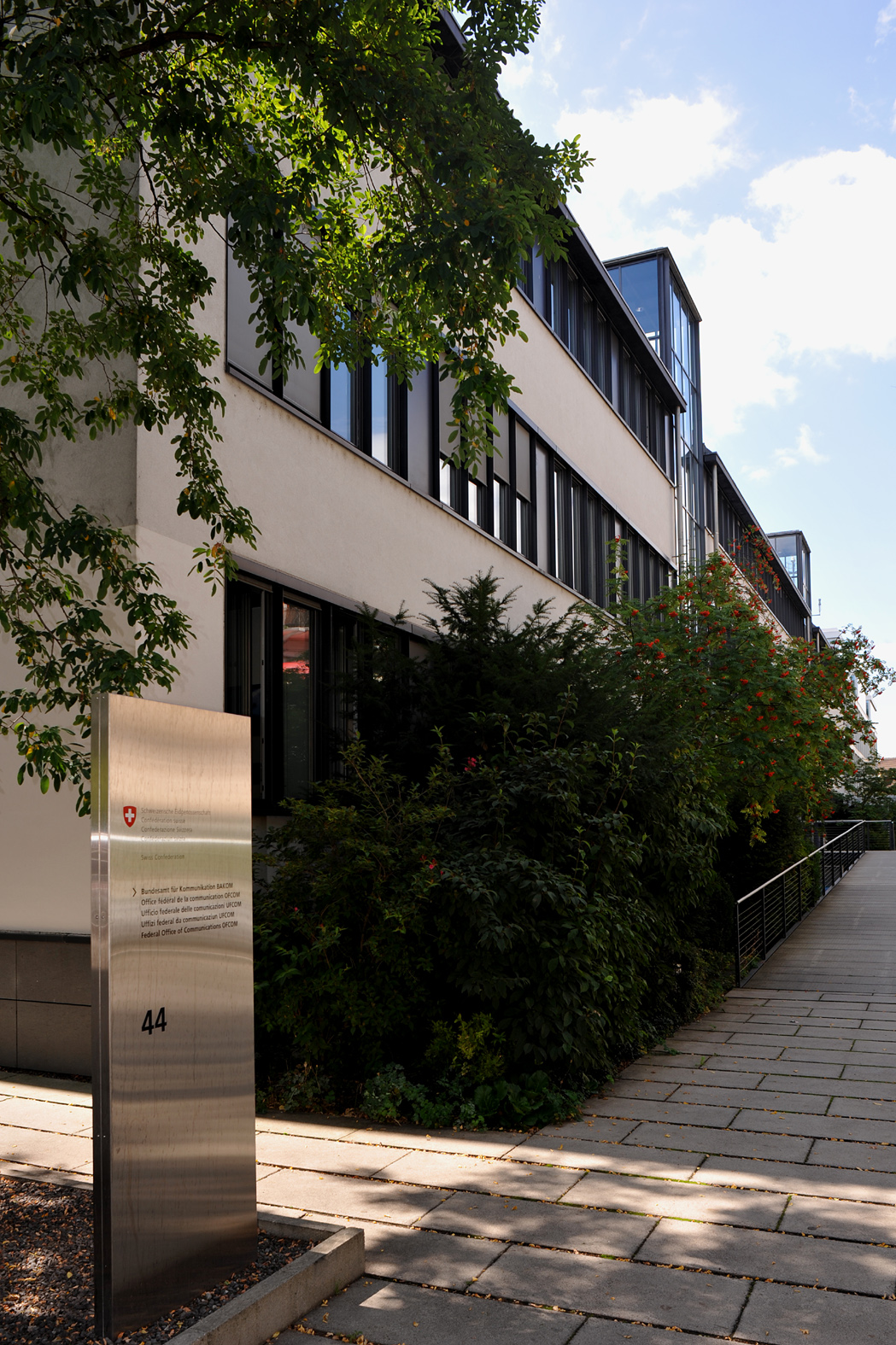 Federal Office of Communications OFCOM Biel, entrance north side; Berne, Switzerland.